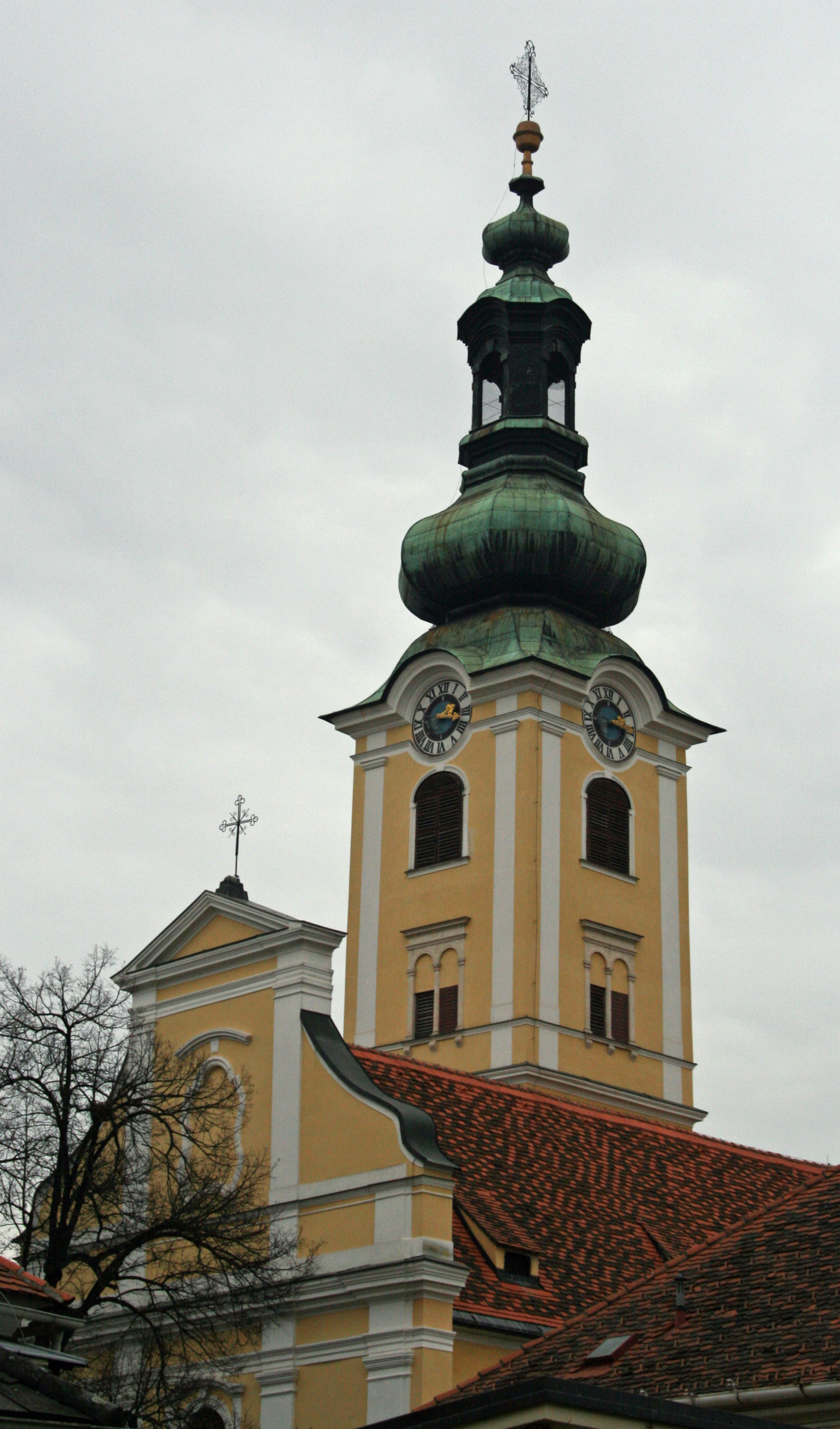 Saint Leonard church in Graz, Austria, Europe